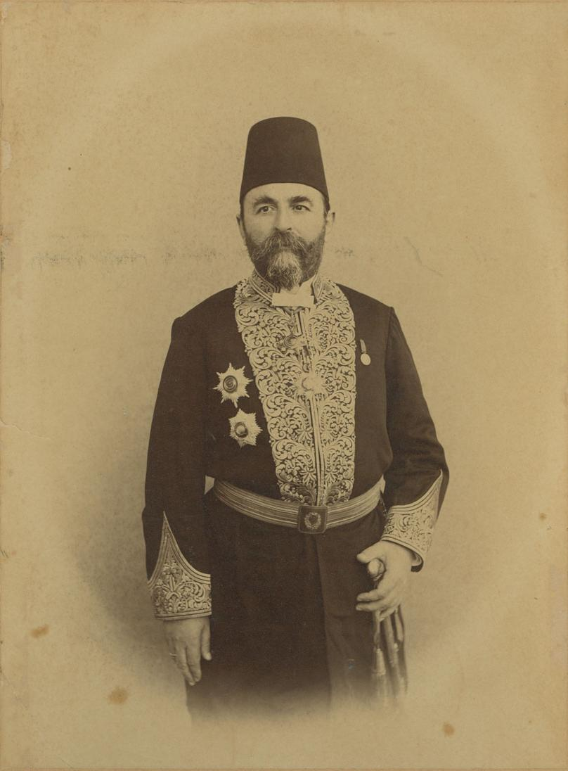 Portrait photo of Stephanos Mousouros, Prince of Samos (1894-1896)